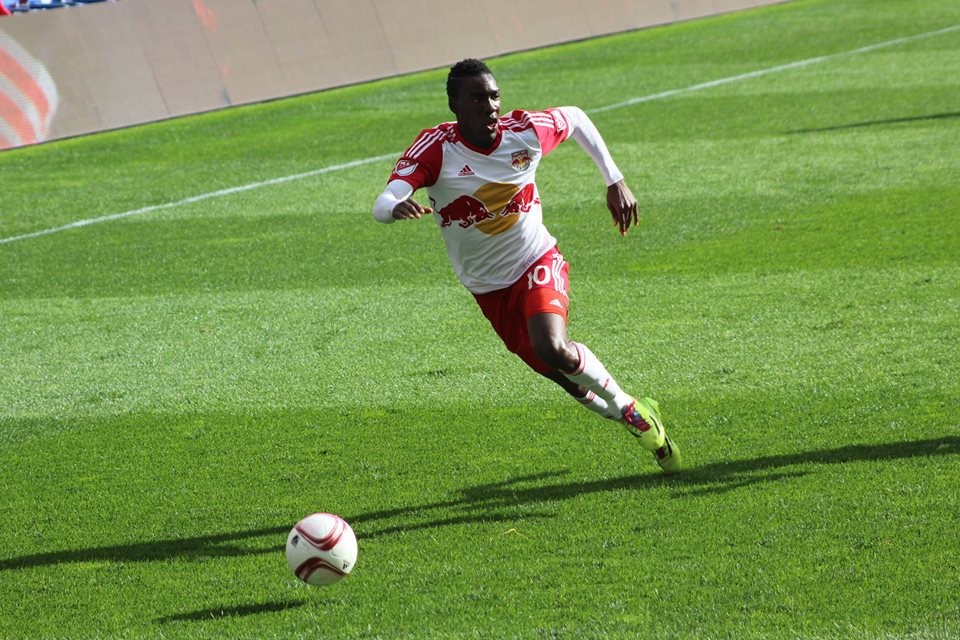 Lloyd Sam in action for the New York Red Bulls